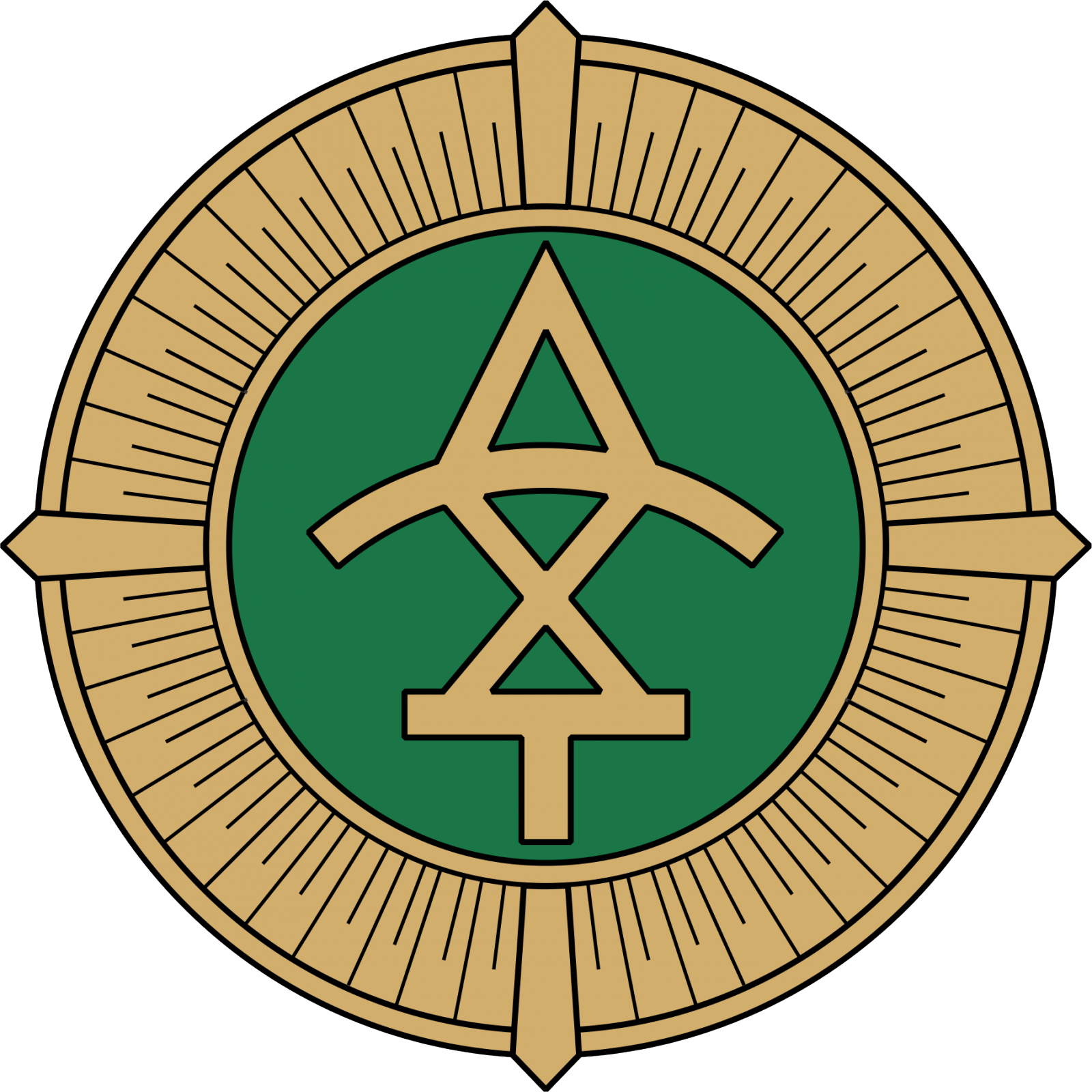 Georgian Border Police COA